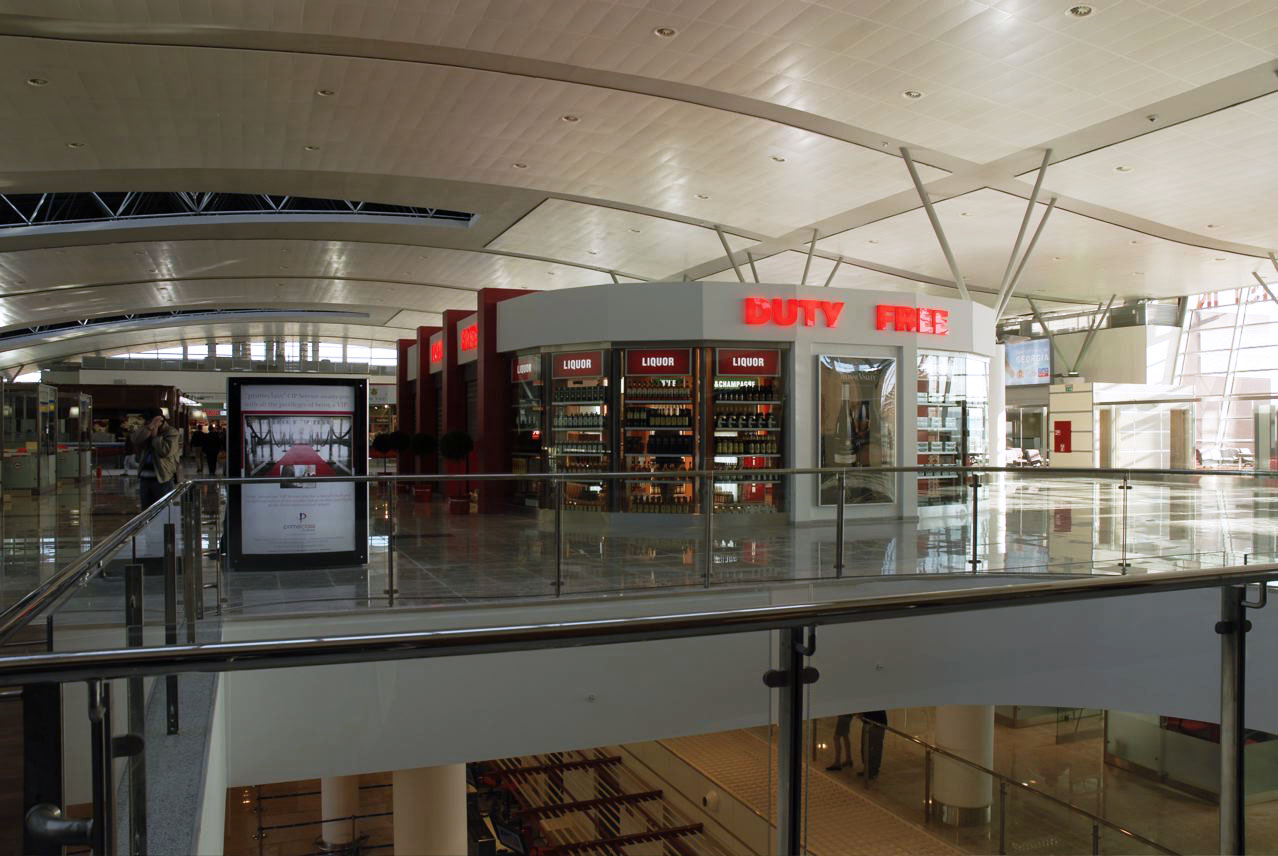 Opening day.